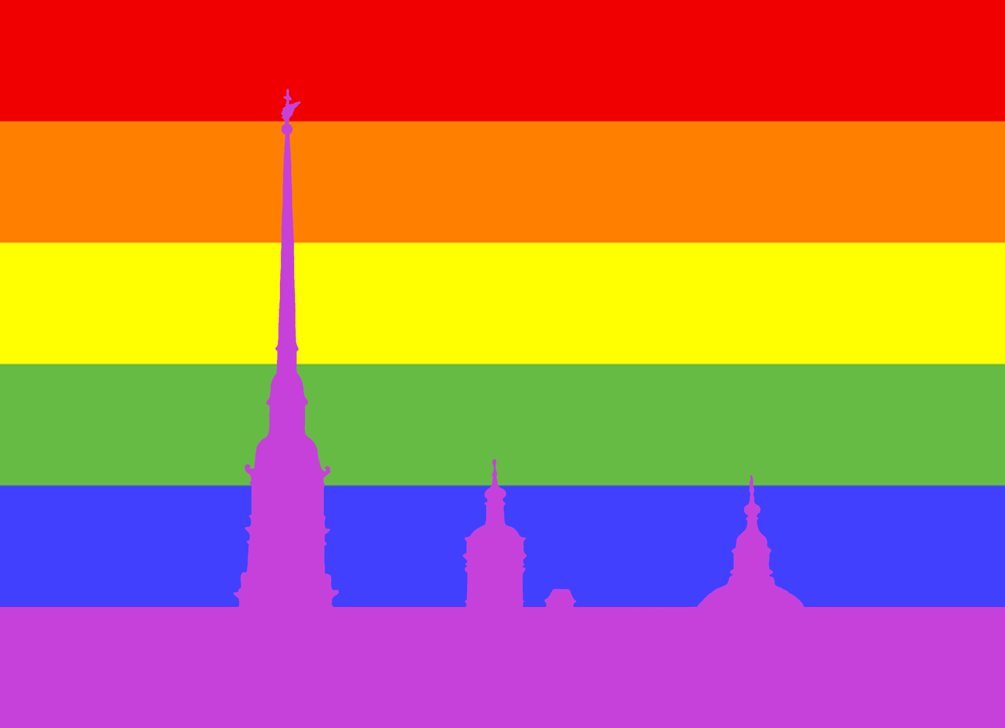 Rainbow flag of Saint Petersburg, Saint Petersburg's LGBT symbols